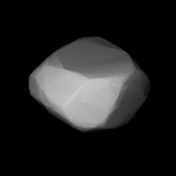 3D convex shape model of 427 Galene, computed using light curve inversion techniques. J. Hanuš, J. Ďurech, M. Brož, B. D. Warner (June 2011). "A study of asteroid pole-latitude distribution based on an extended set of shape models derived by the lightcurve inversion method". Astronomy and Astrophysics 530: A134. ISSN 0004-6361. arXiv